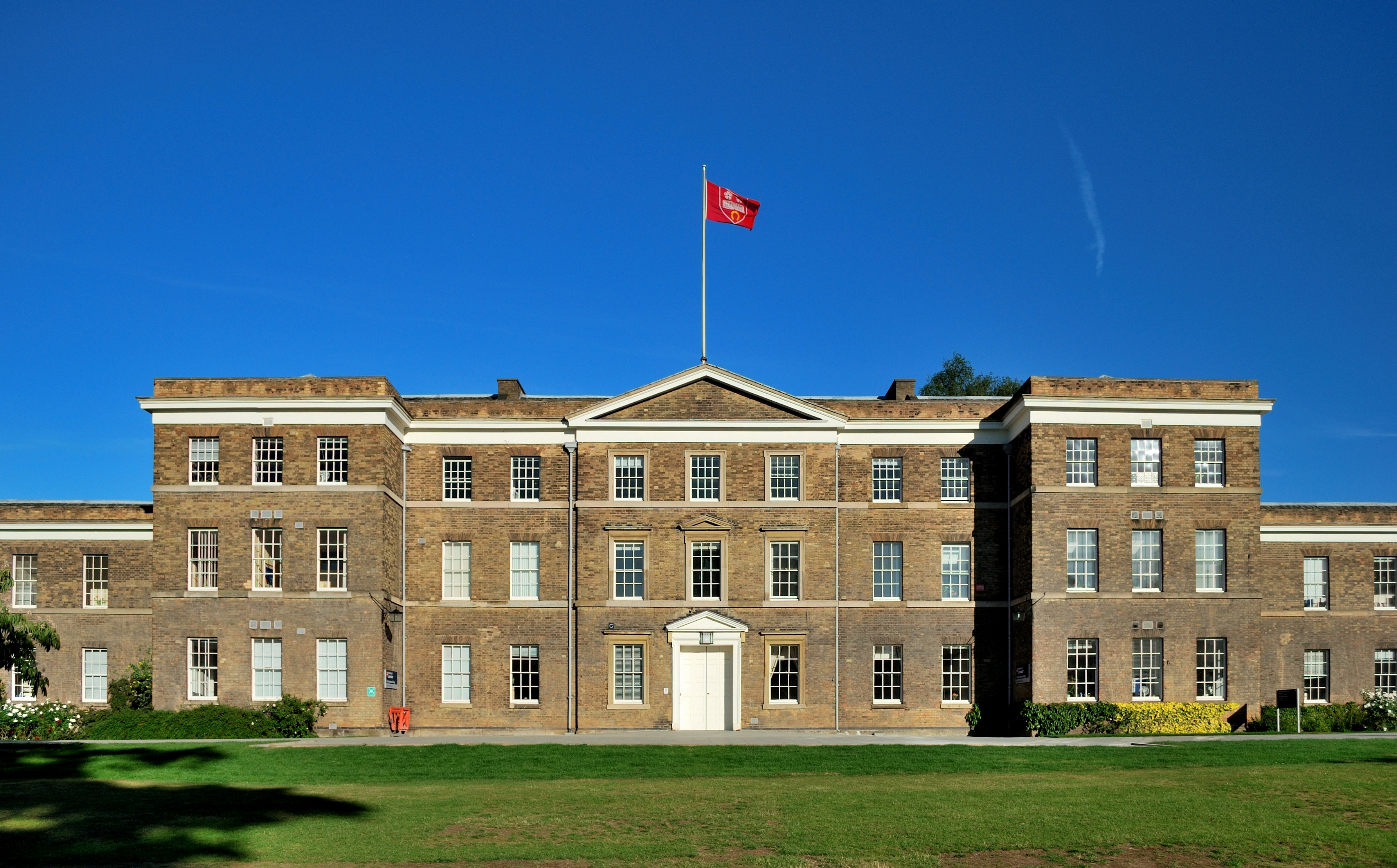 The Fielding Johnson Building at the University of Leicester: a former lunatic asylum, which is now home to the university's administrative staff. A Grade II listed building.[1]